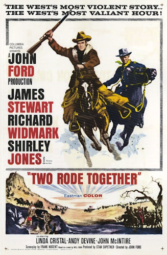 Theatrical poster for the film Two Rode Together (1961)